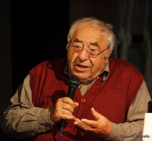 Don Franco durante un convegno